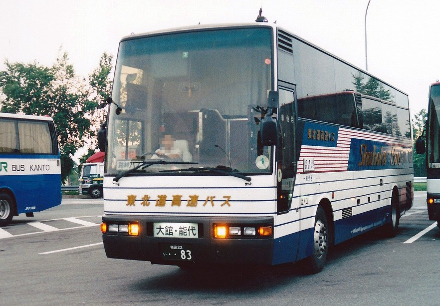 Shuhoku bus Isuzu Super Cruiser (P-LV719R) for highwaybus "Jupiters"(Noshiro,Odate - Ikebukuro)